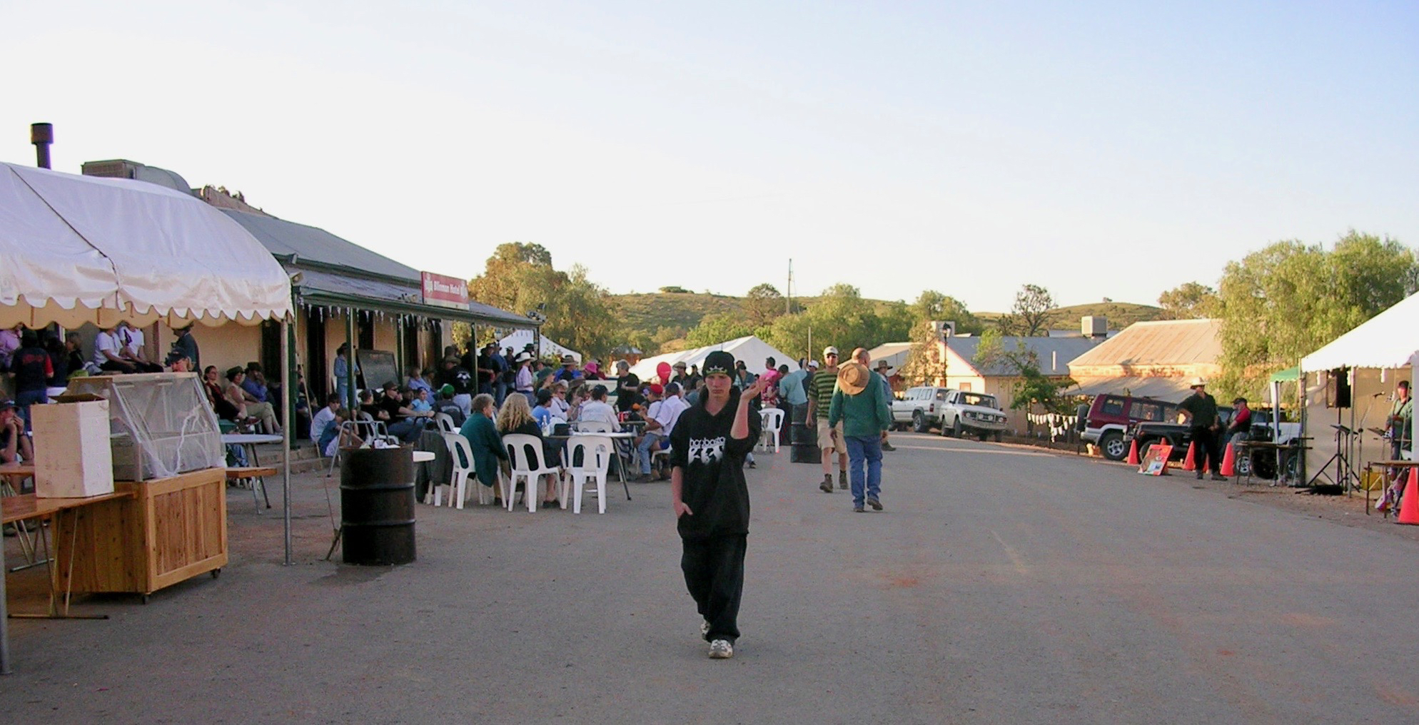 Picture of the main street during the Blinman Cook out back festival. Original picture from the 2004 event